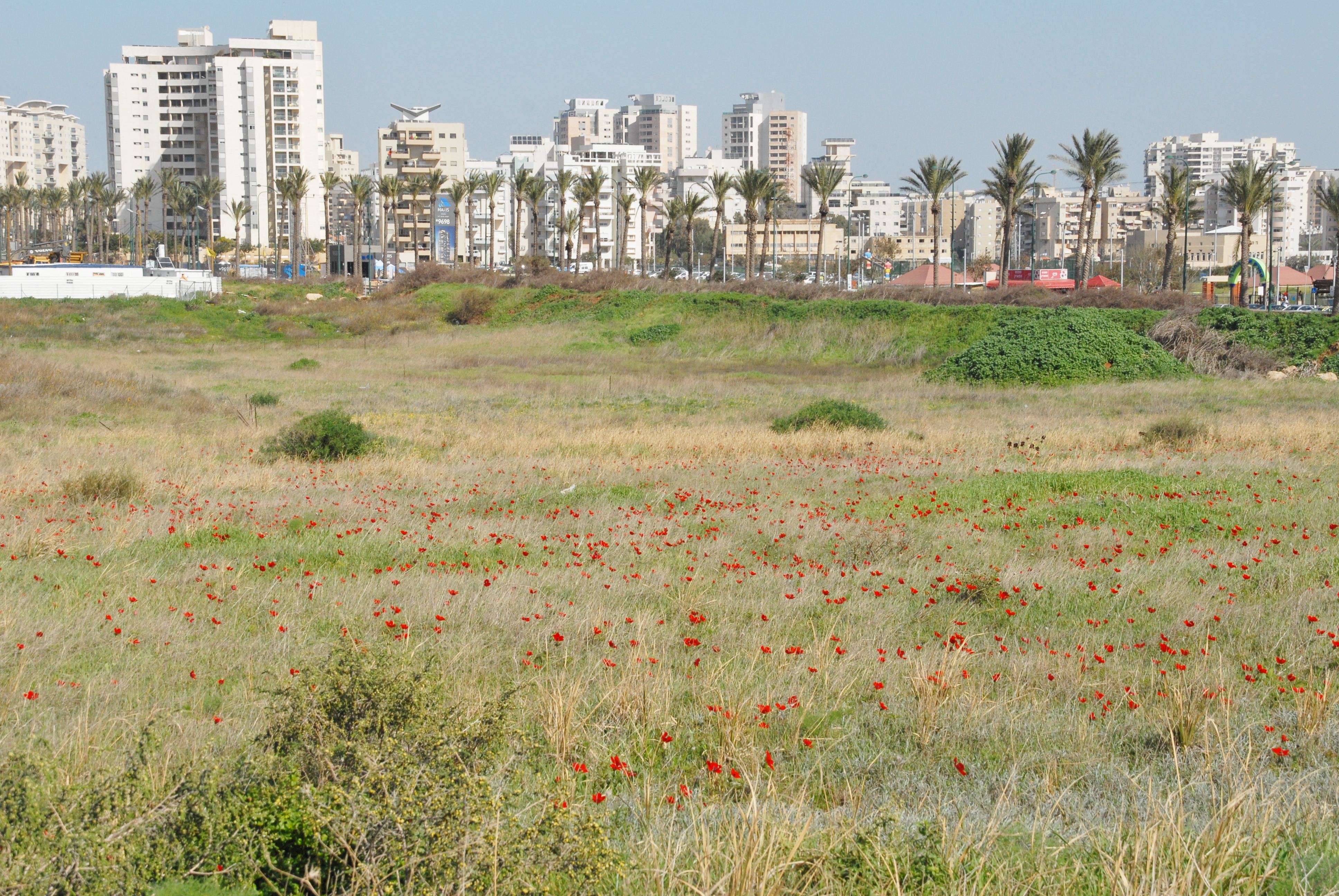 Plants of Israel